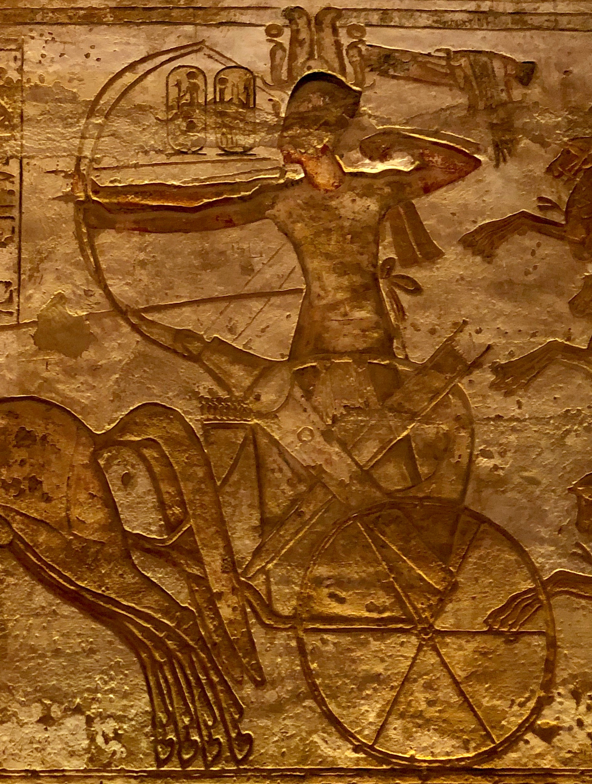 The Great Temple of Ramses II, Abu Simbel, AG, EGY